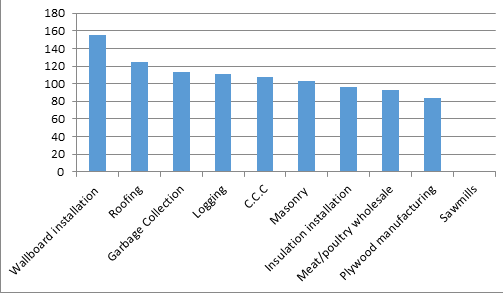 This graph shows professions that involve repetitive overhead motion. It also shows that with all of these professions there are workers that have reported rotator cuff tears. Wallboard installation has the highest amount of claims. Construction professions are at a high risk for rotator cuff disorders.